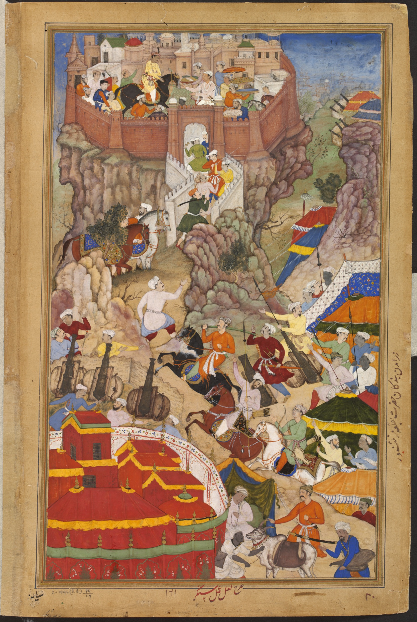 Akbar's entry into the fort of Ranthambhor after the submission of the Rajput, Rai Surjan Hada.